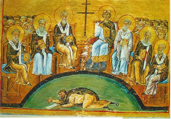 Second Council of Nicaea. Miniatures from the Basil II Menologion // Ms. Vat. gr. 1613. Fol. 108